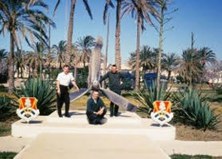 I took this photo in 1967